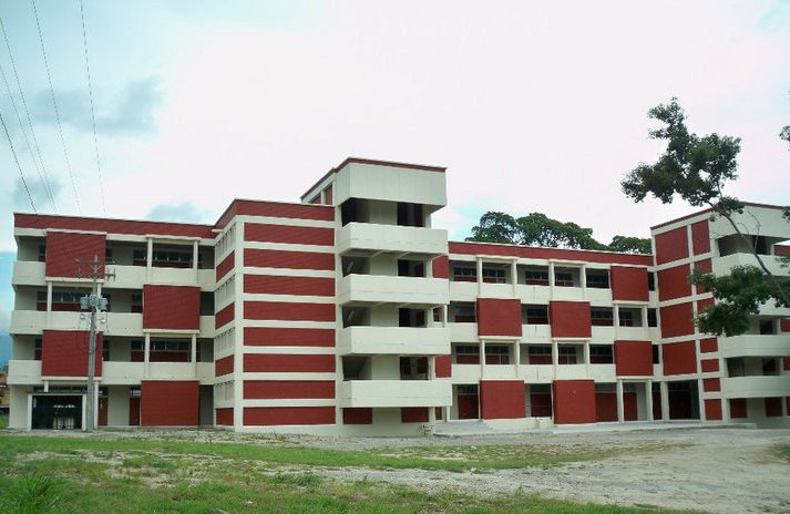 Building UNAH-VS